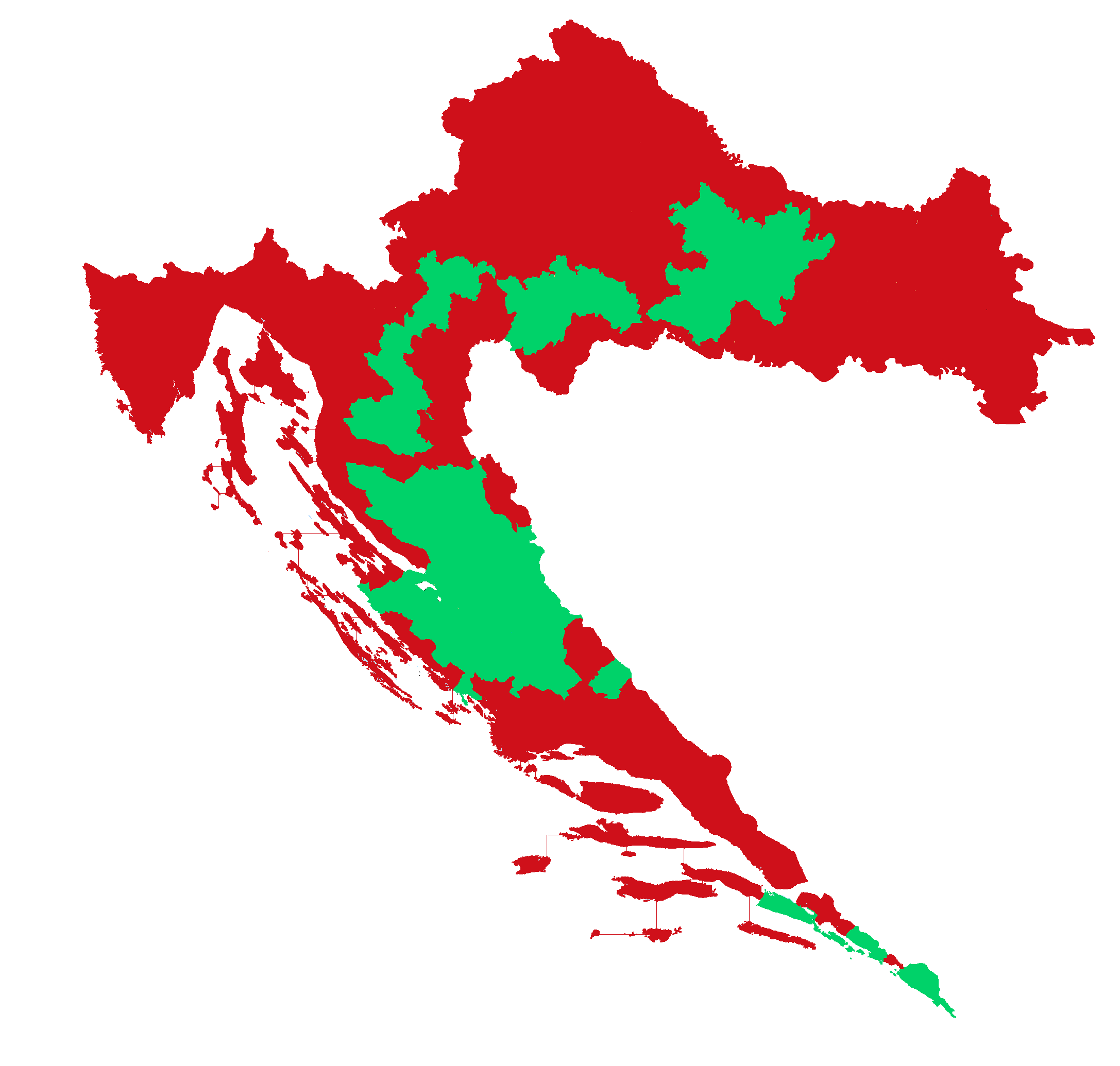 Second category of the Areas of Special State Concern in Croatia. Derivative work of the File:Croatia map municipalities.png.